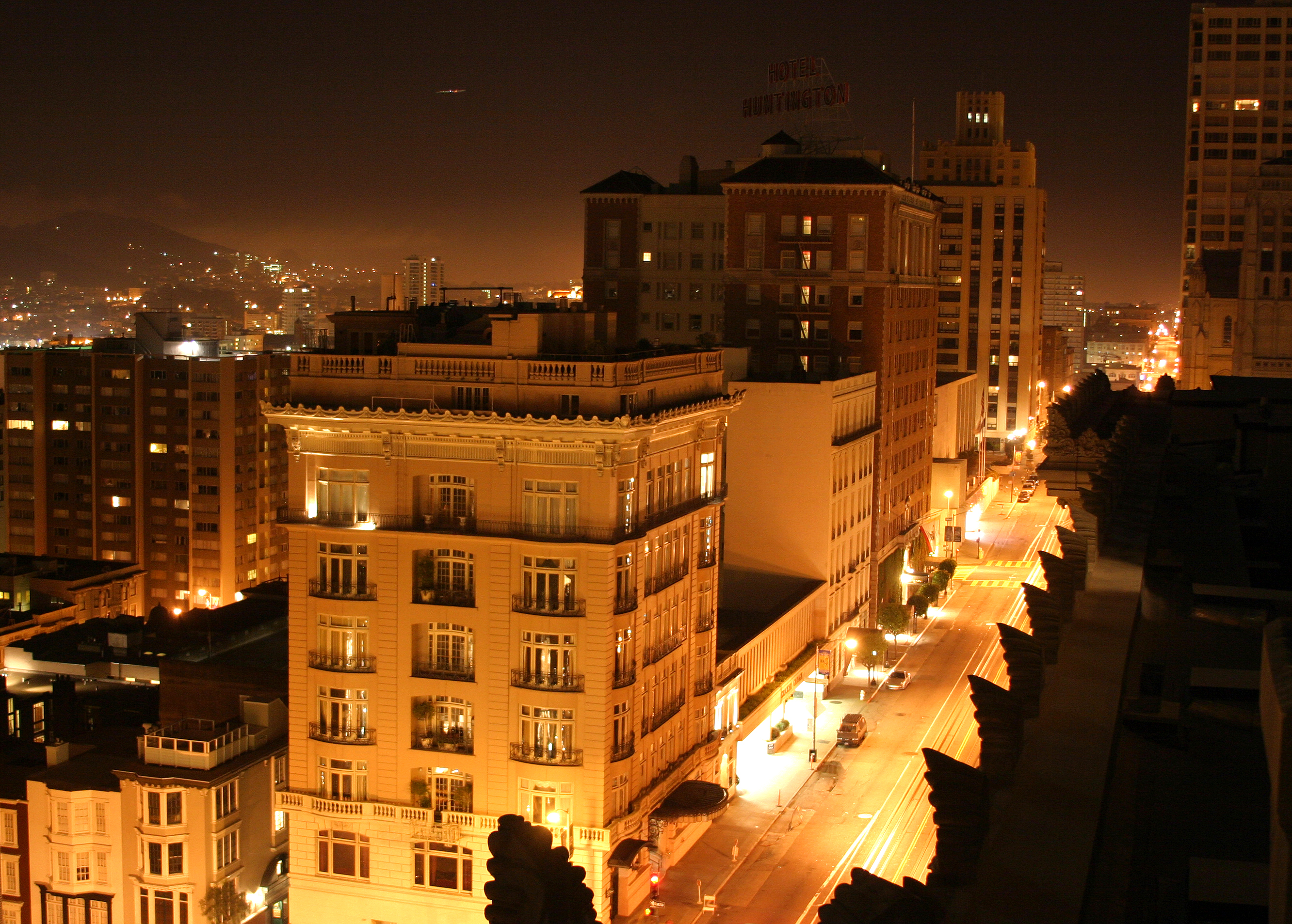 California Street on Nob Hill, San Francisco, California, United States. This photograph was shot from the Presidential Suite Penthouse on one of the decks at the Fairmont Hotel.